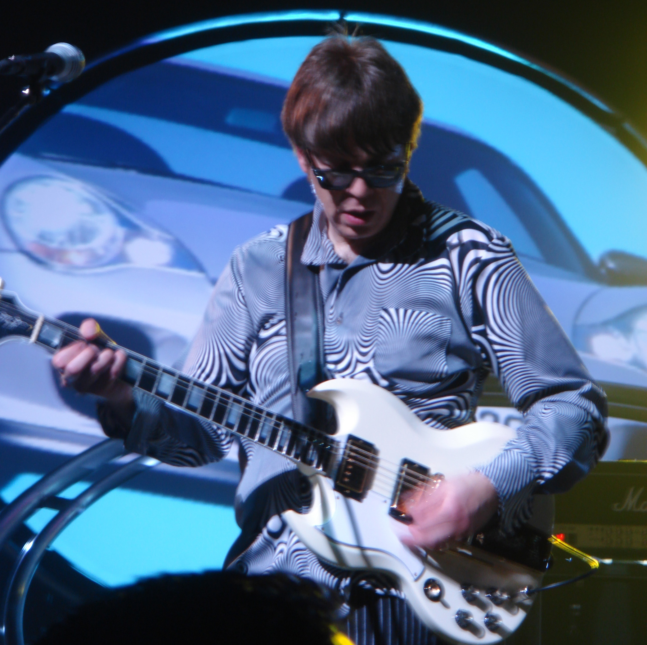 Elliot Easton performs with The New Cars at the Nokia Theater in Dallas Texas on May 14, 2006.